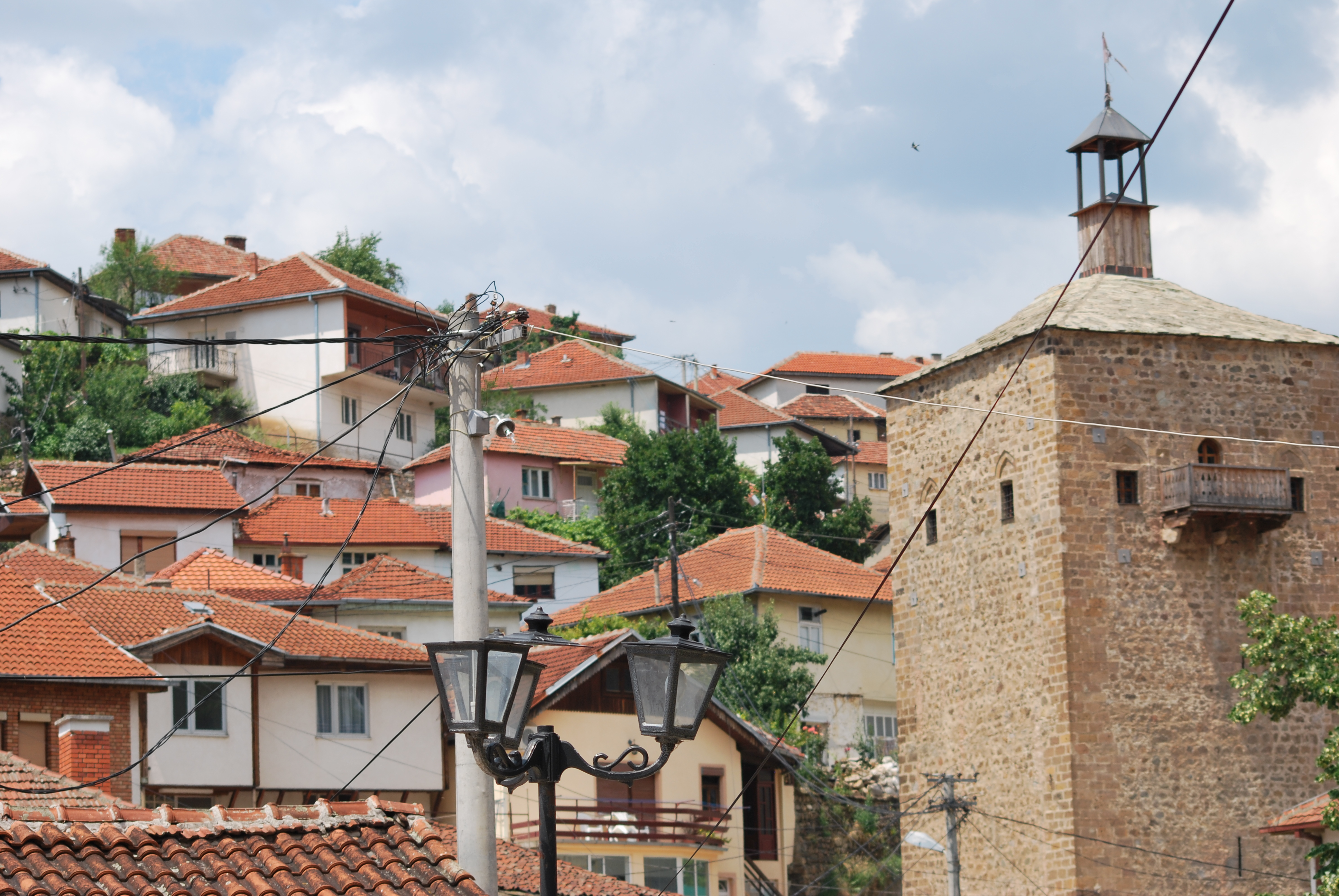 IKratovo, Macedonia